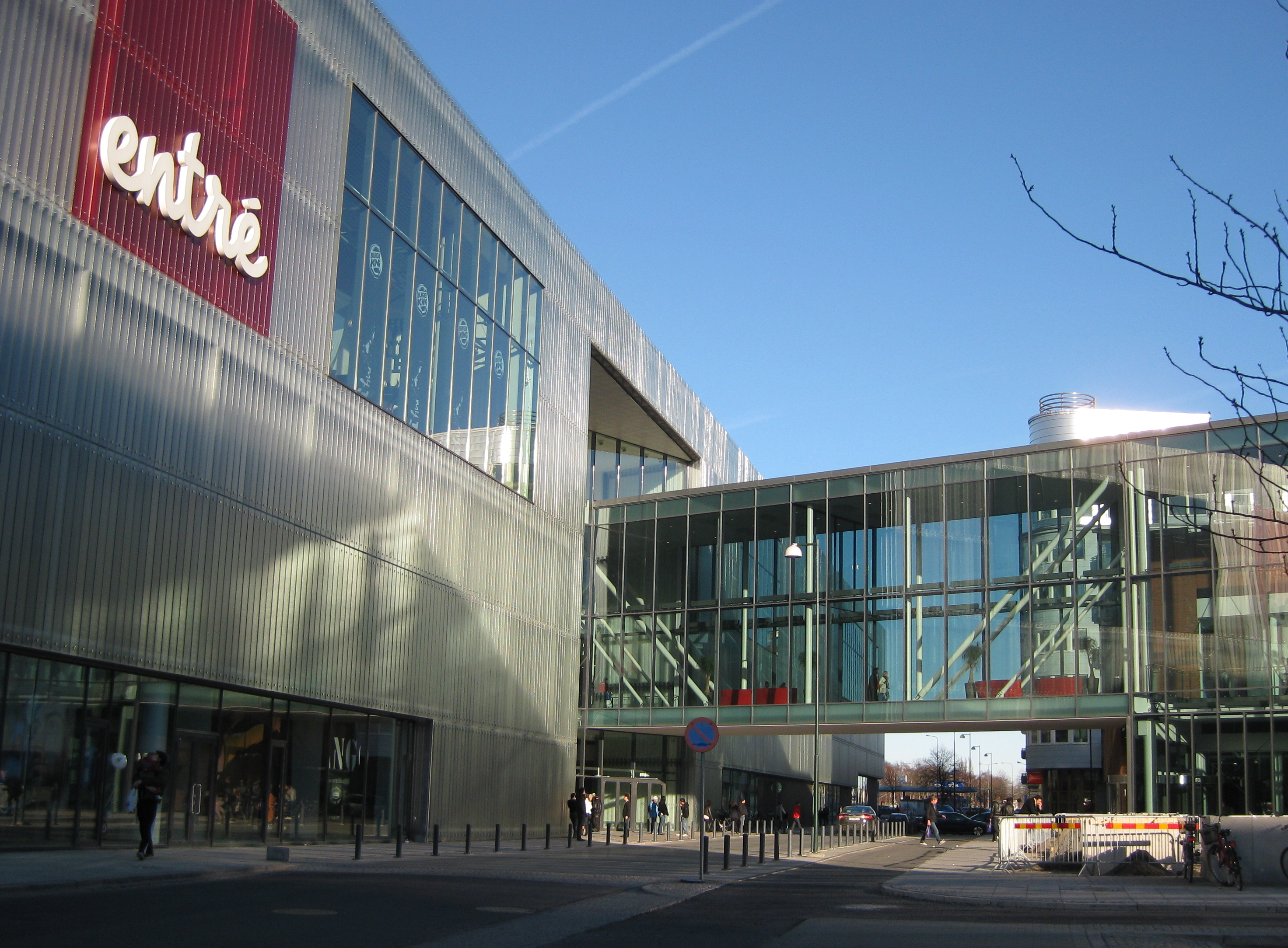 Shopping mall Entré in Malmö, Sweden